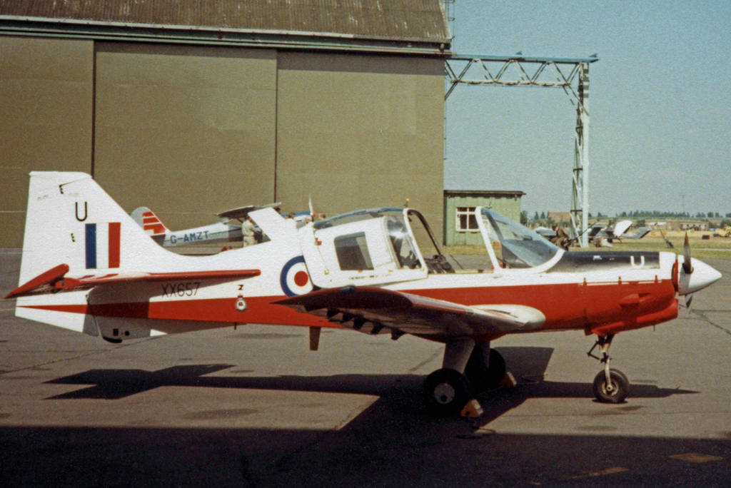 Scottish Aviation Bulldog T.1 of Cambridge University Air Squadron at RAF Cosford during the 1984 summer camp.